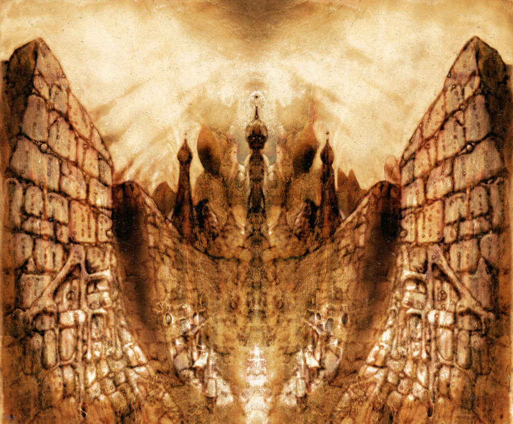 leothefox's concept art based on H. P. Lovecraft's short story "The Nameless City".